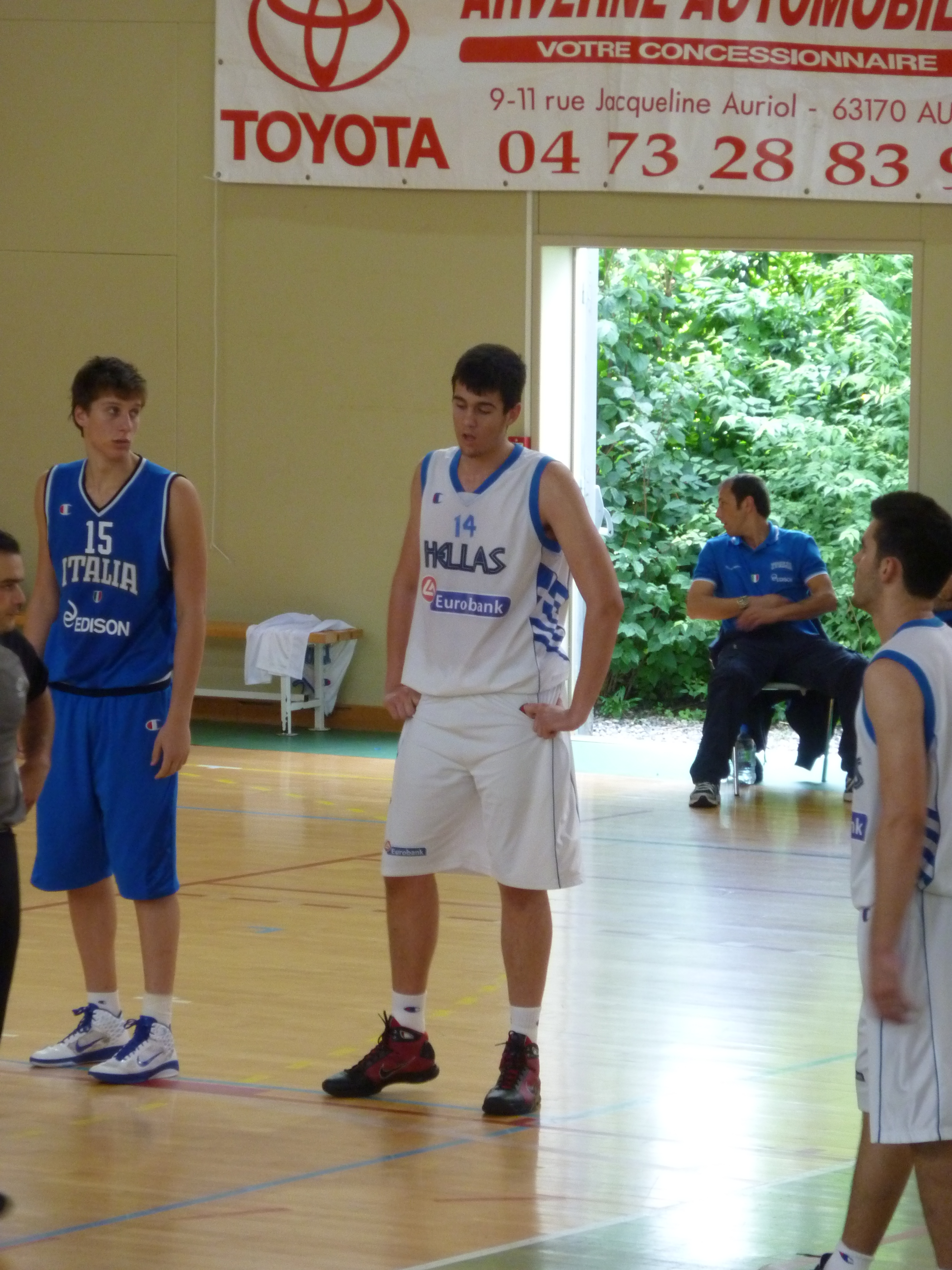 Greek basketball player Georgios Diamantakos next to Italian player Lorenzo Benvenuti at the international U16 tournament in Riom, France.